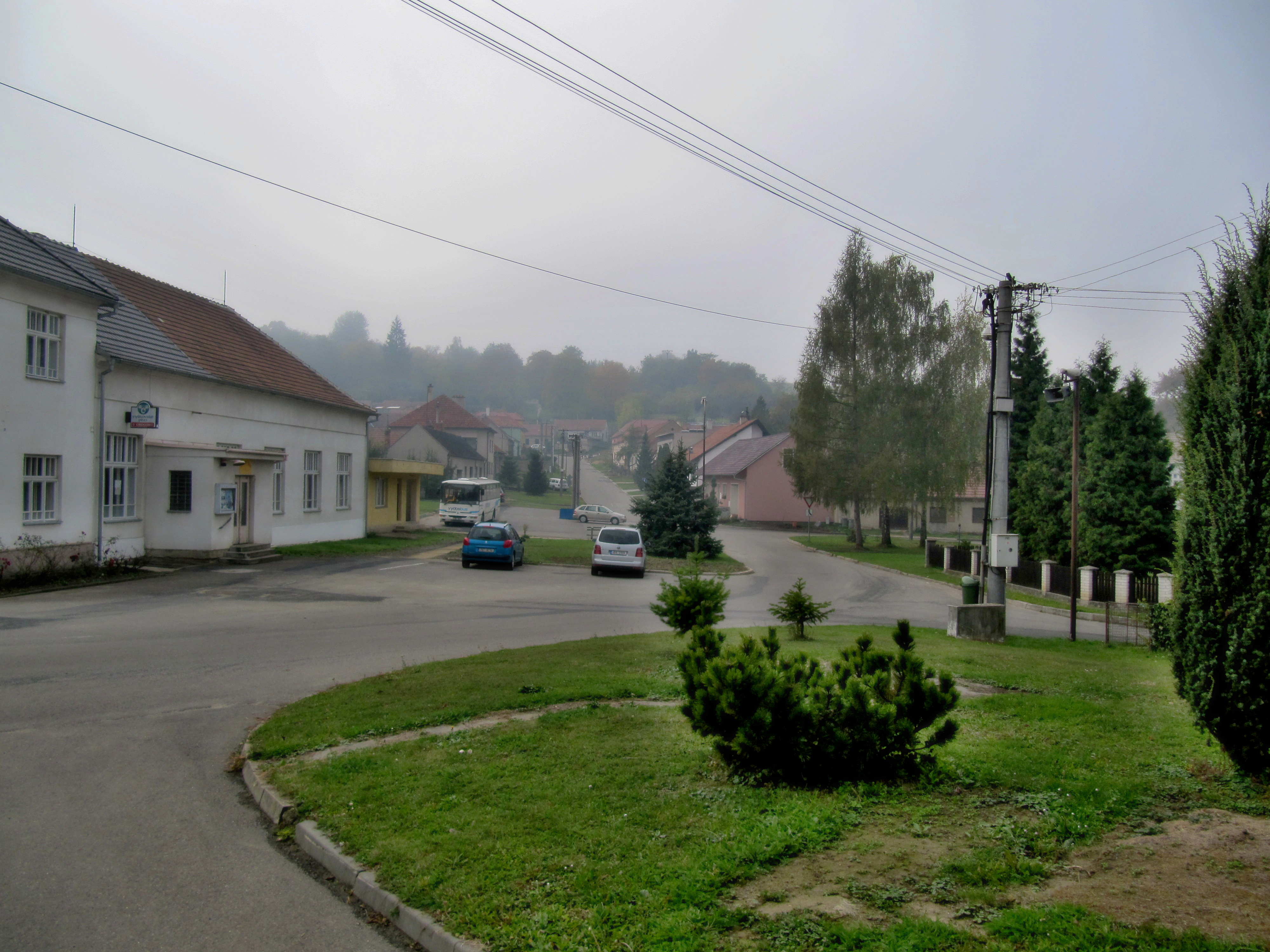 Rašovice in Vyškov District, Czech Republic. Village green.